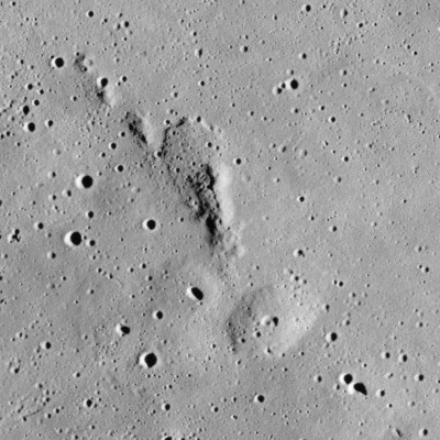 Mons Esam (center), Diana (below center), and Grace (below right of center) on the moon. Camera altitude 258 km, sun elevation 7 deg.